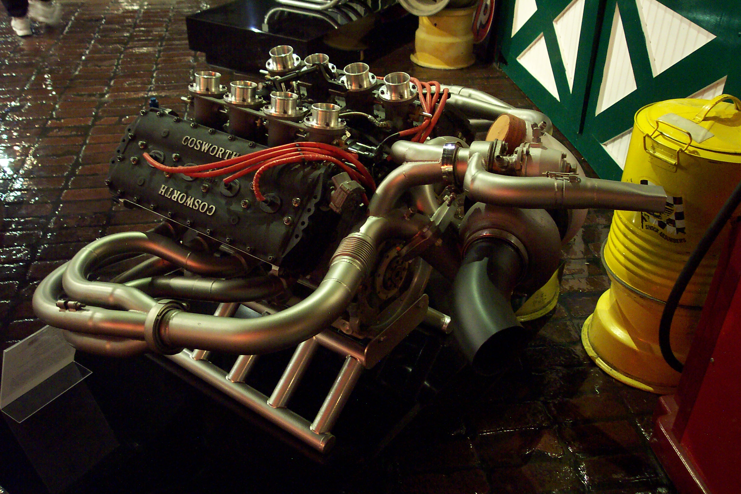 A Cosworth DFX racing engine shown at Museum of American Speed in Lincoln, NE